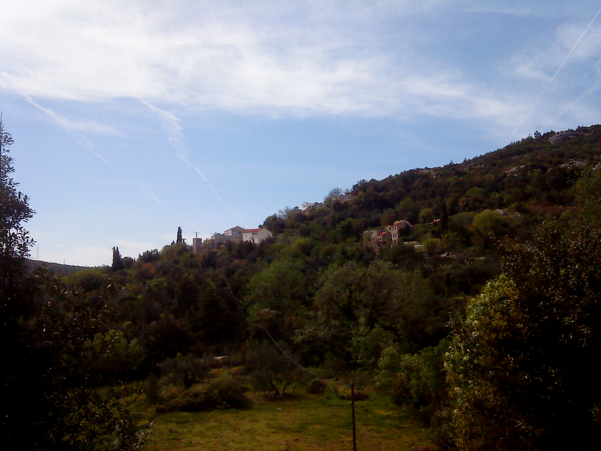 Zabrđe